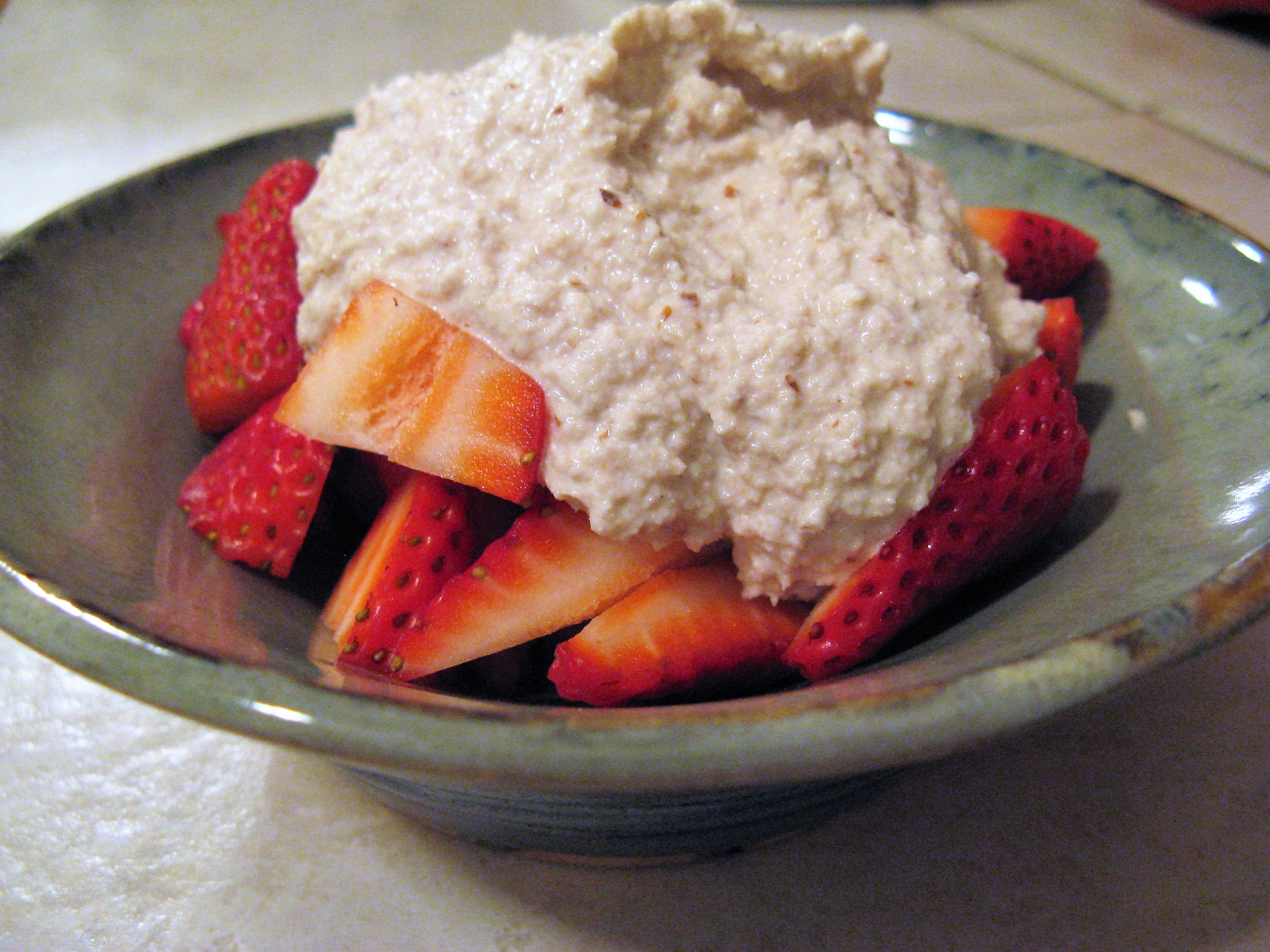 Fresh, organic strawberries with raw almond cream on top.